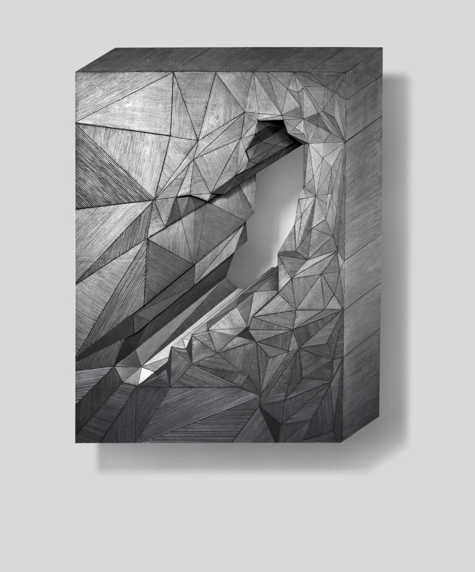 praca Szymona Kobylarza pt. Historia Alojzego Piątka, zdjęcie autora